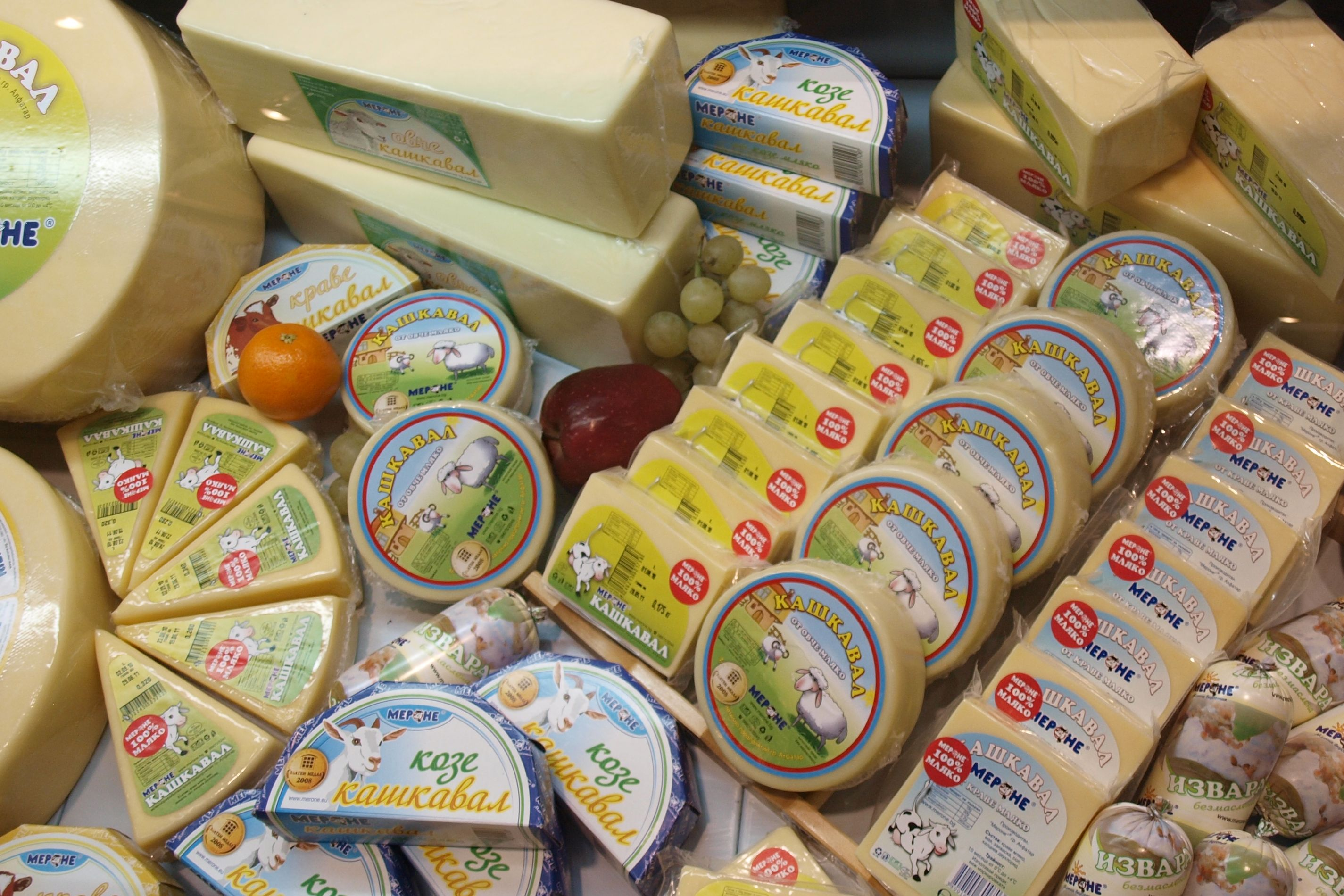 Kashkaval - traditional Bulgarian yellow semihard cheese of Gauda type.